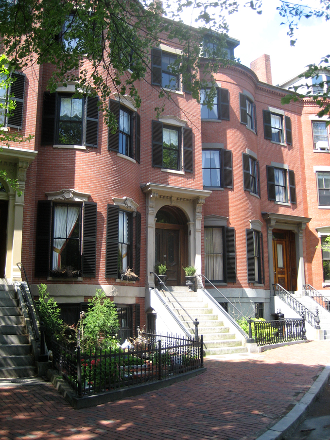 Nineteenth century brick bow-front rowhouses in the South End nneighborhood of Boston, Massachusetts, USA.